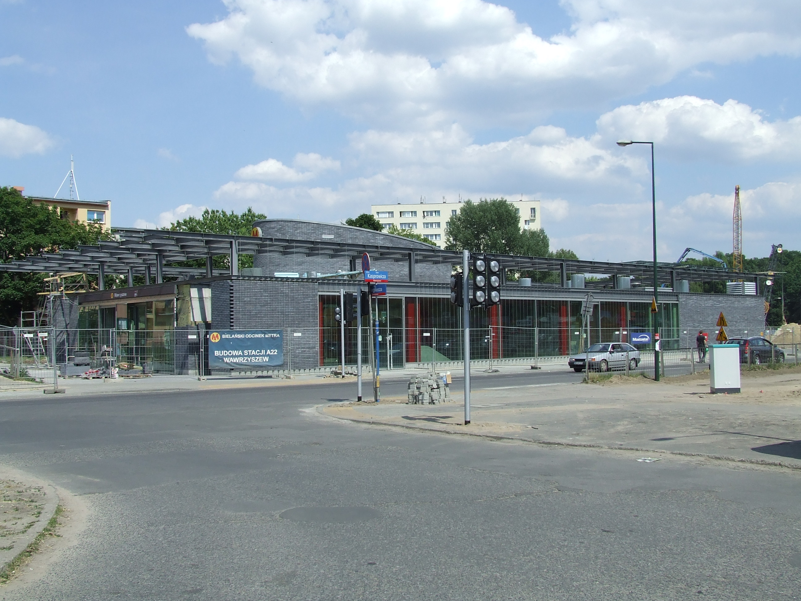 A-22 Wawrzyszew